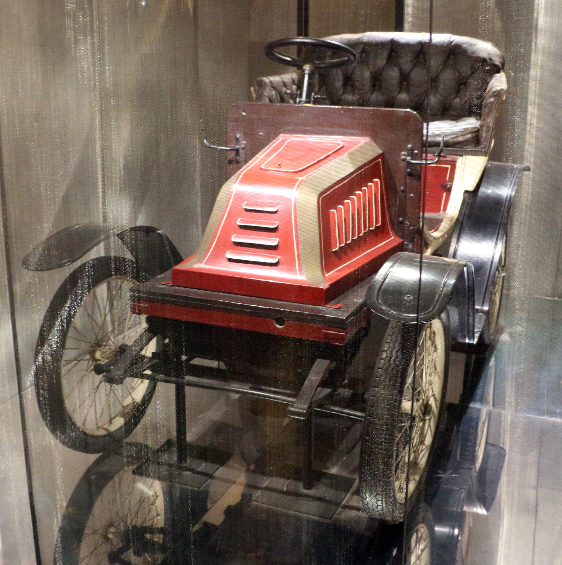 Museo Nazionale della Scienza e della Tecnologia (Milan)